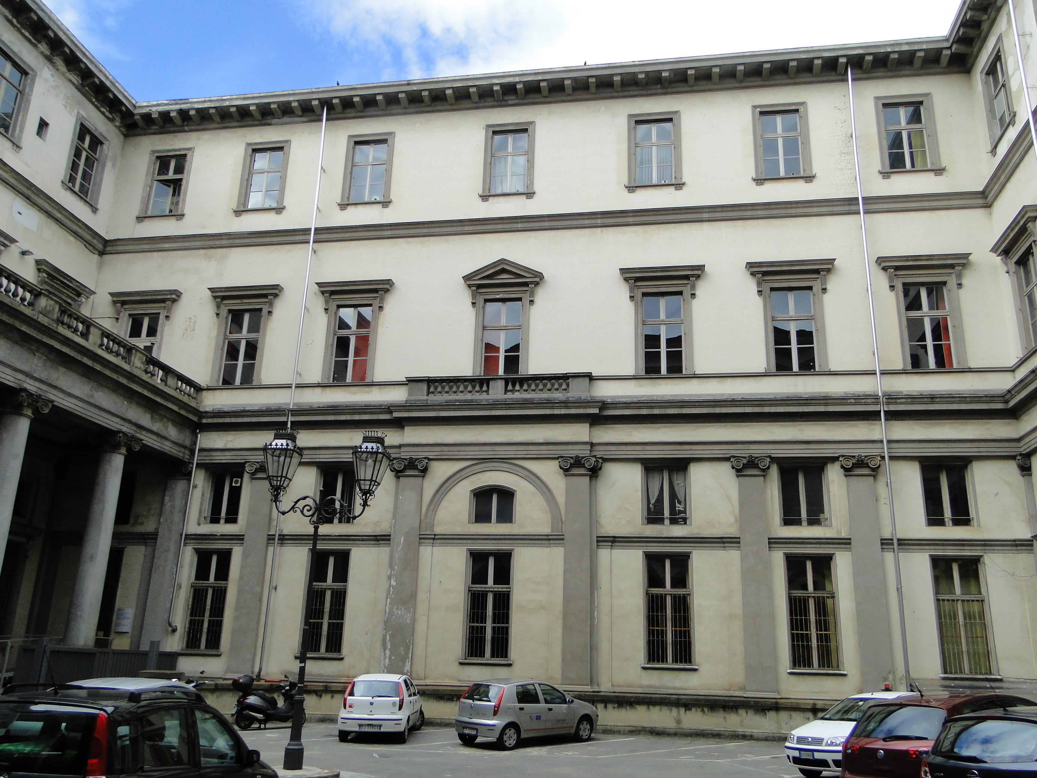 Turin - Palace of the Savoy's Senate - Court